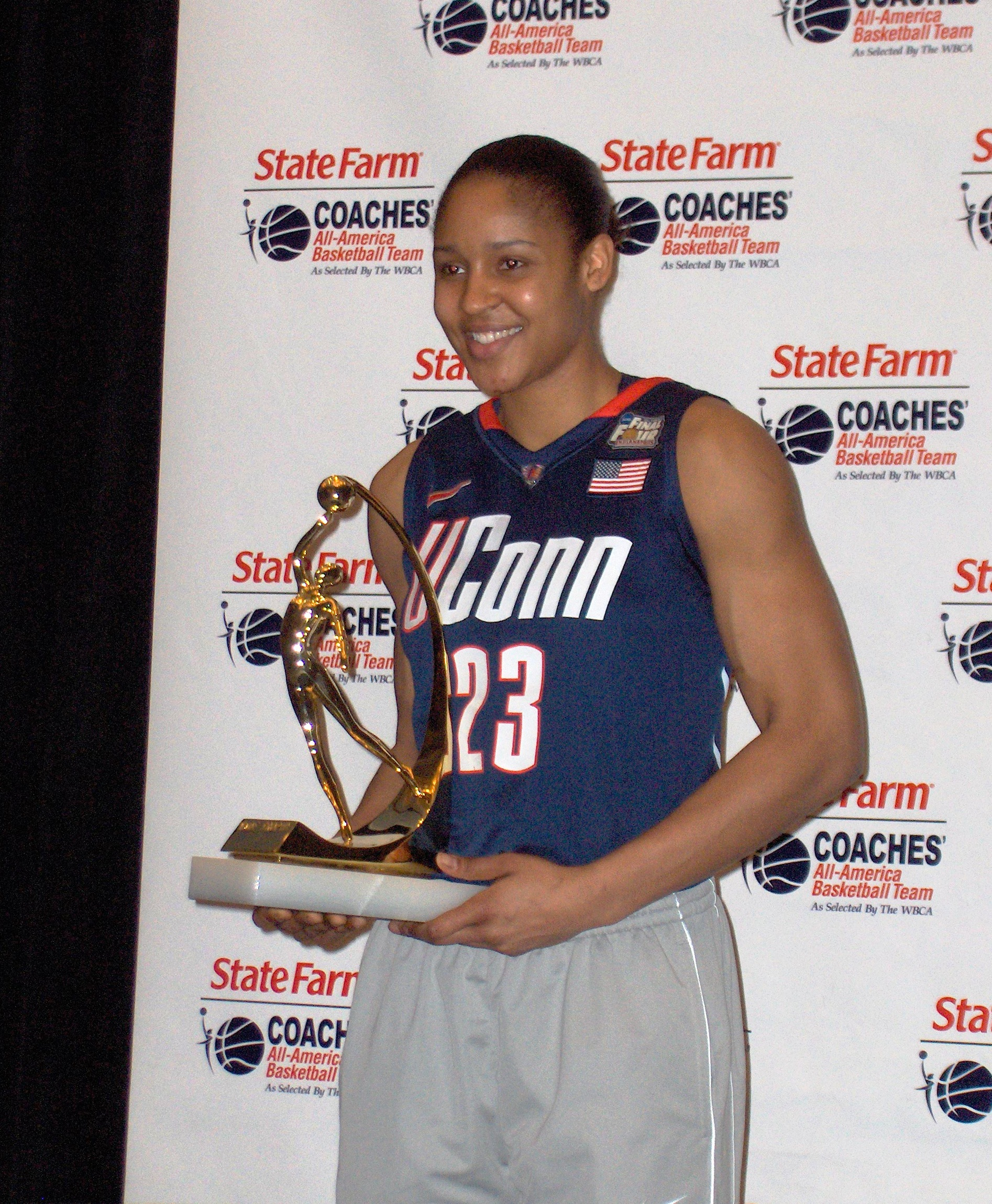 Photo of Maya Moore accepting the Wade Trophy, taken at the 2011 Women's basketball Coaches Association Convention in Indianapolis, Indiana. She is the first ever three time recipient of the award.